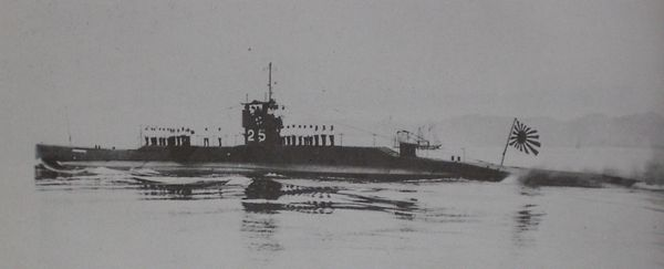 HIJMS Ro-51